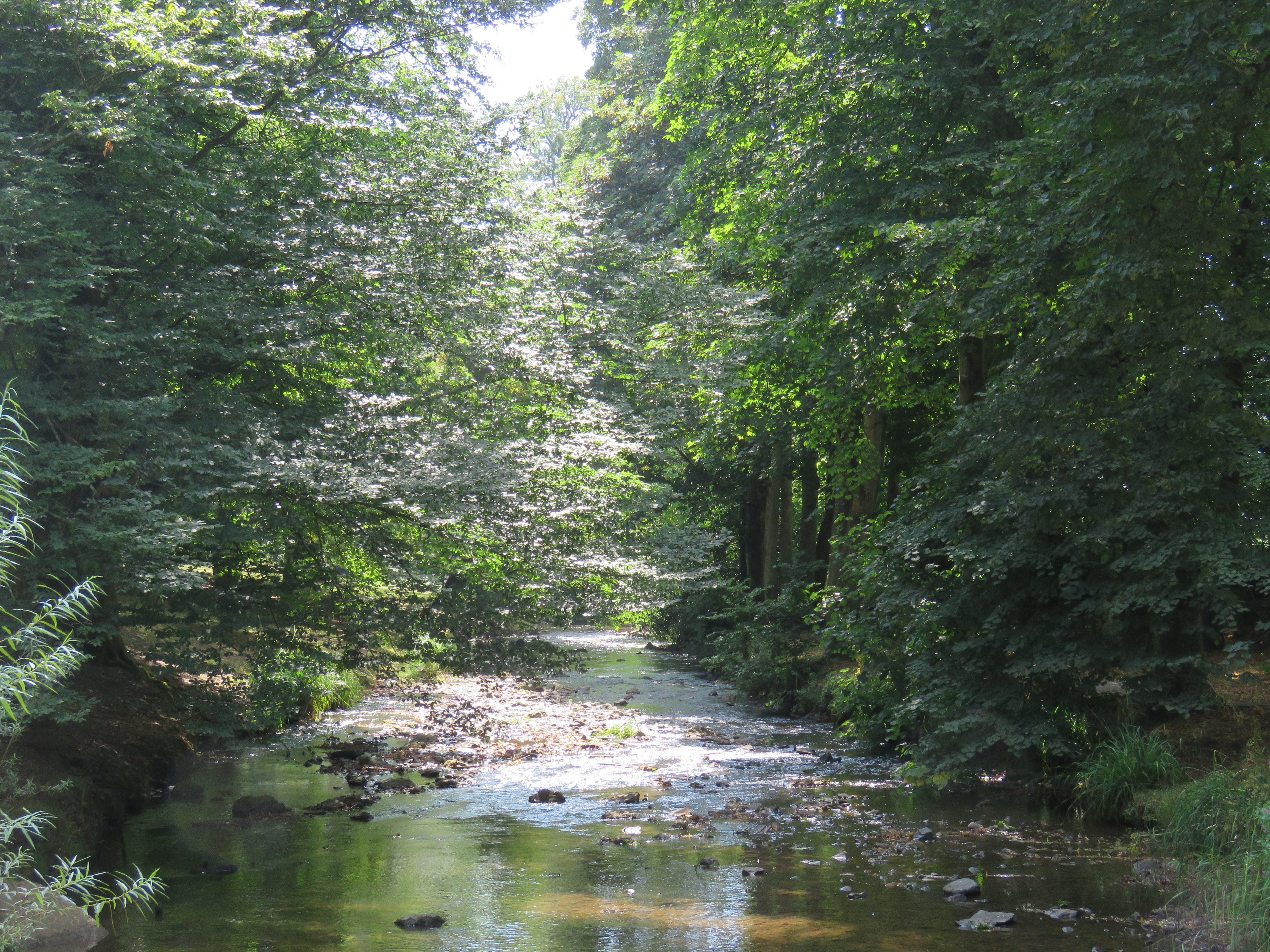 River Sid in The Byes, Sidmouth, Devon